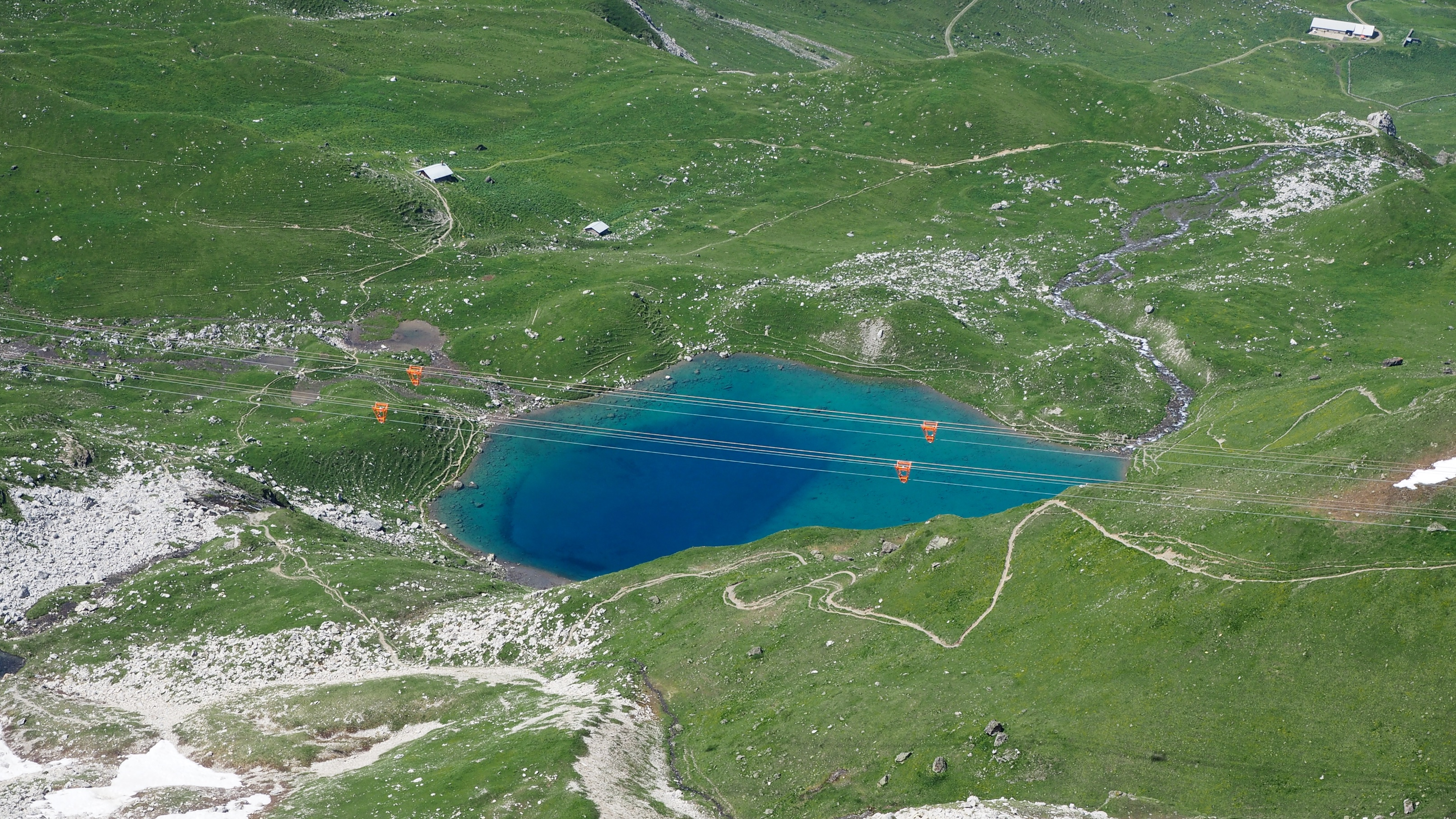 Lake Urdensee with cables of Urdenbahn, Arosa/Tschiertschen, Switzerland